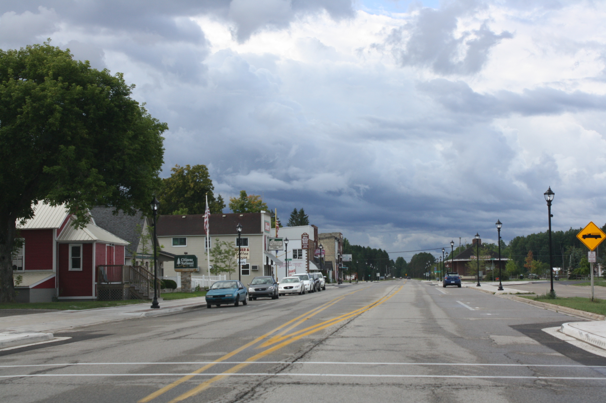 Looking south in downtown Pellston, Michigan on U.S. Route 31.